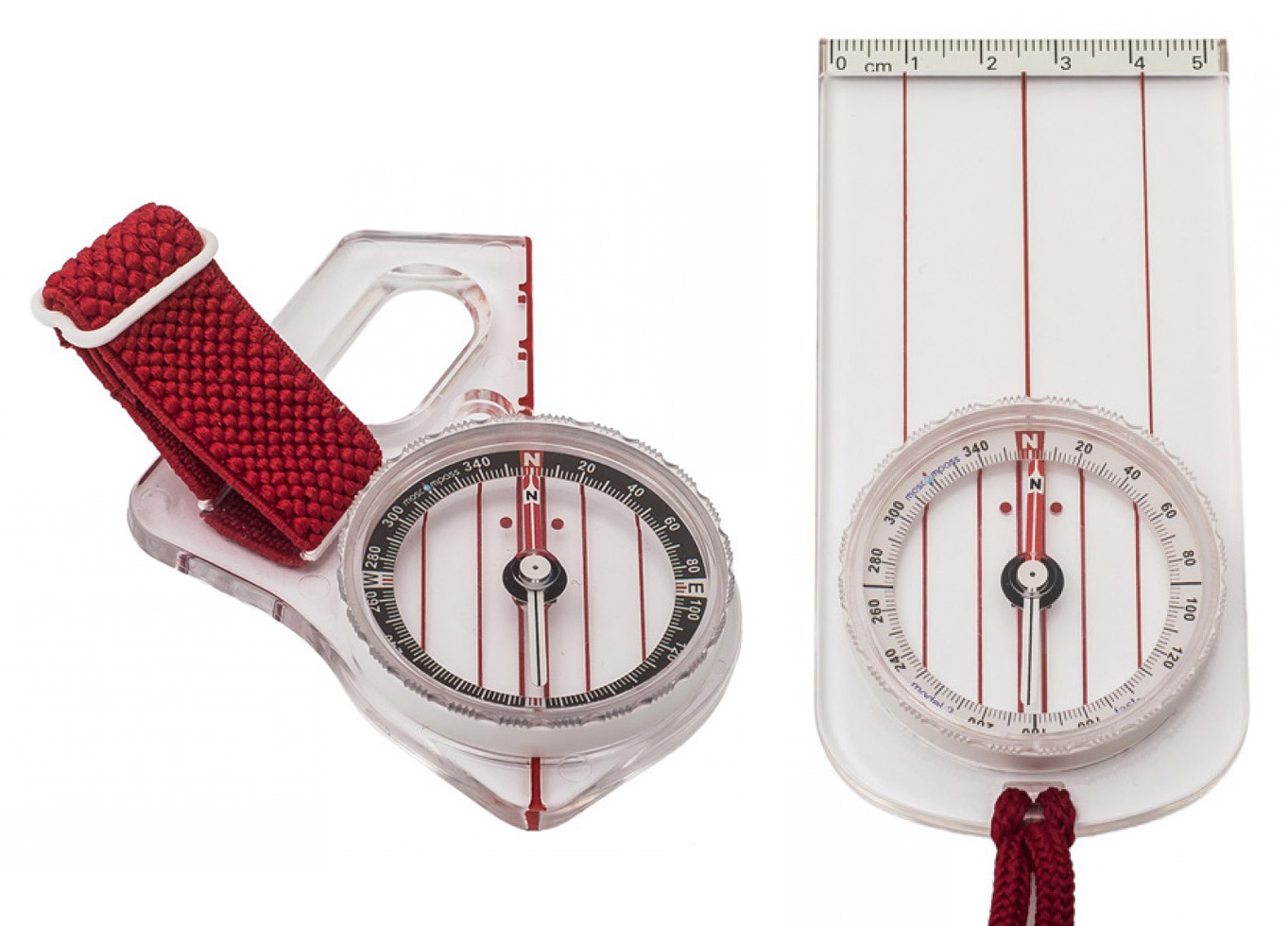 Thumb and baseplate Moscow compasses